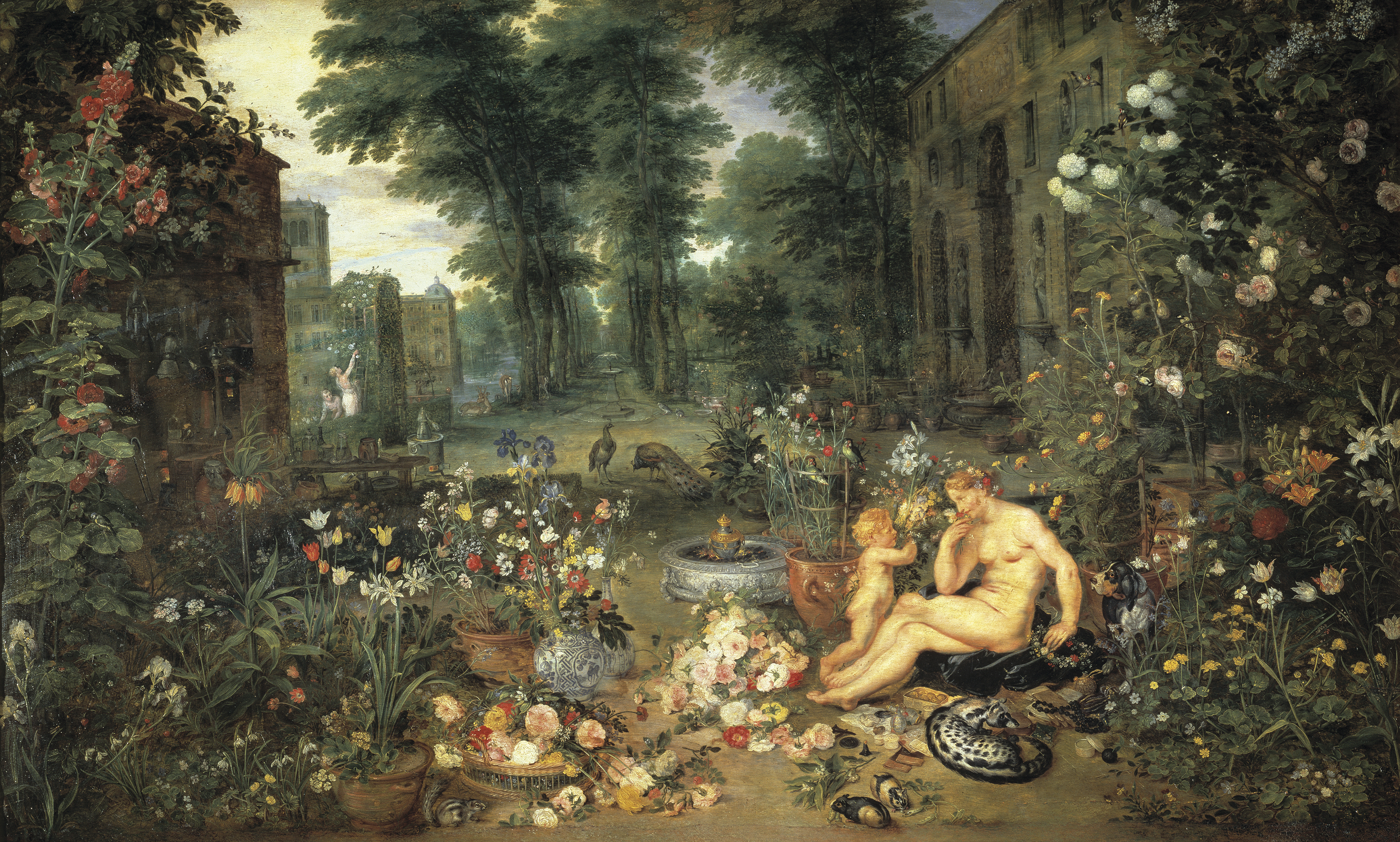 Allegory of the sense of smell